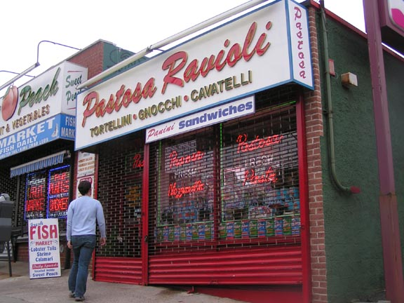 Shops, Staten Island